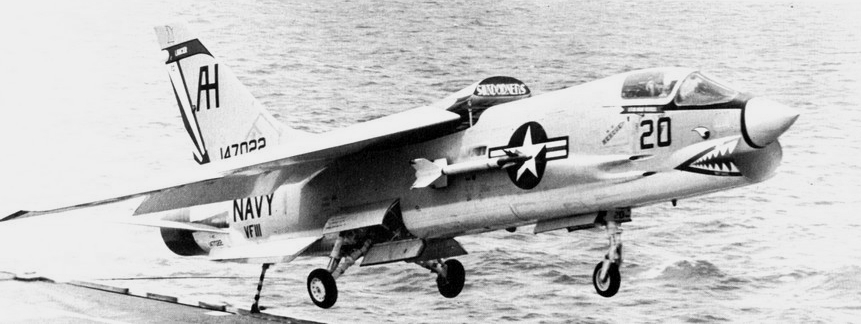 A U.S. Navy Vought F-8C Crusader aircraft (BuNo 147022) from Fighter Squadron VF-111, Det.11 Omar's Orphans after a wave-off. VF-111, Det. 11 was assigned to Carrier Air Wing 10 (CVW-10) aboard the aircraft carrier USS Intrepid (CVS-11) for a deployment to Vietnam from 11 May to 30 December 1967. Det.11 was a detachment of VF-111 Sundowners, which was assigned to CVW-16 (note tail code "AH") aboard USS Oriskany (CVA-34).